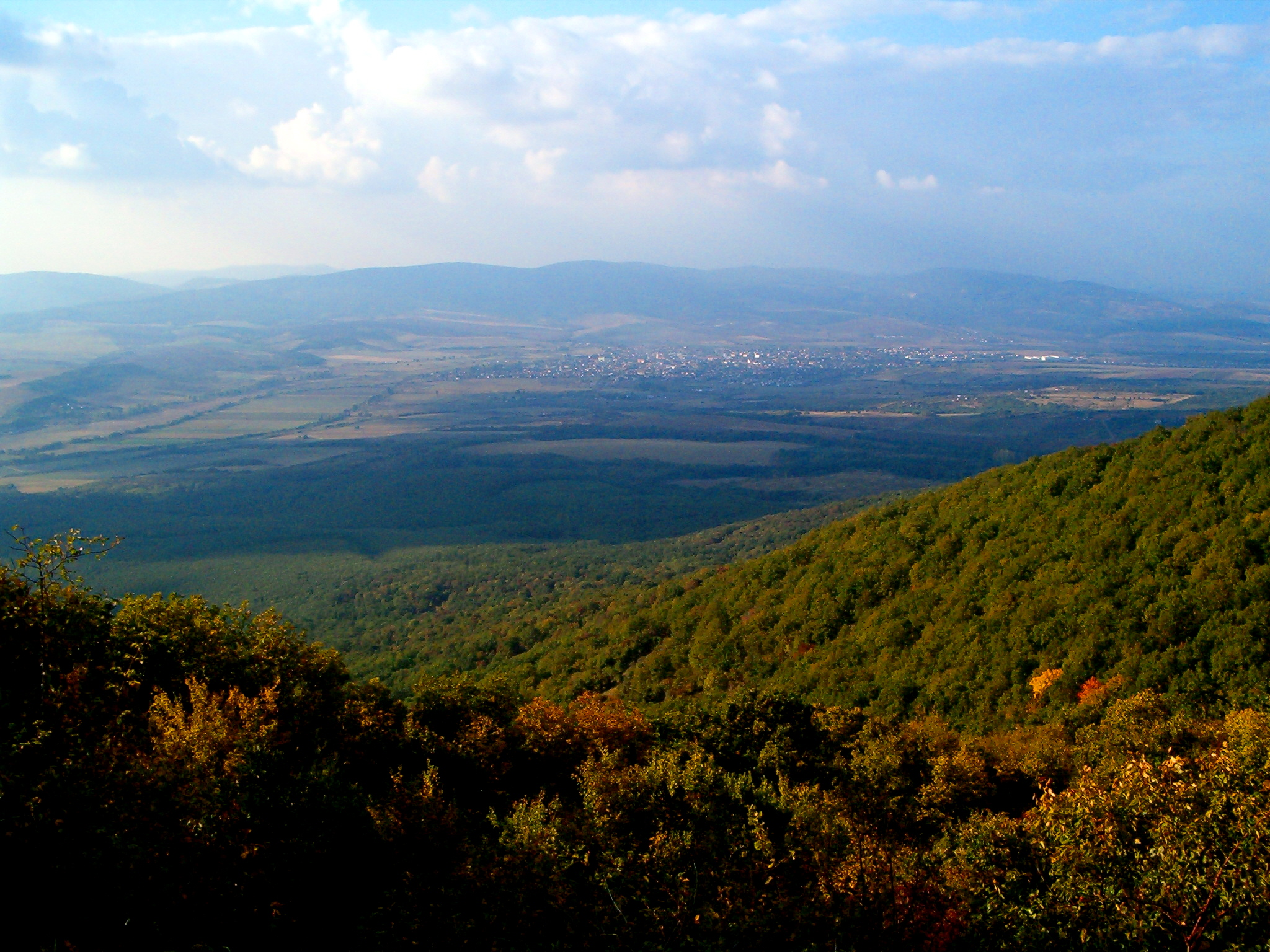 Valley of Zagyva River (Western Mátra Mts., Hungary)